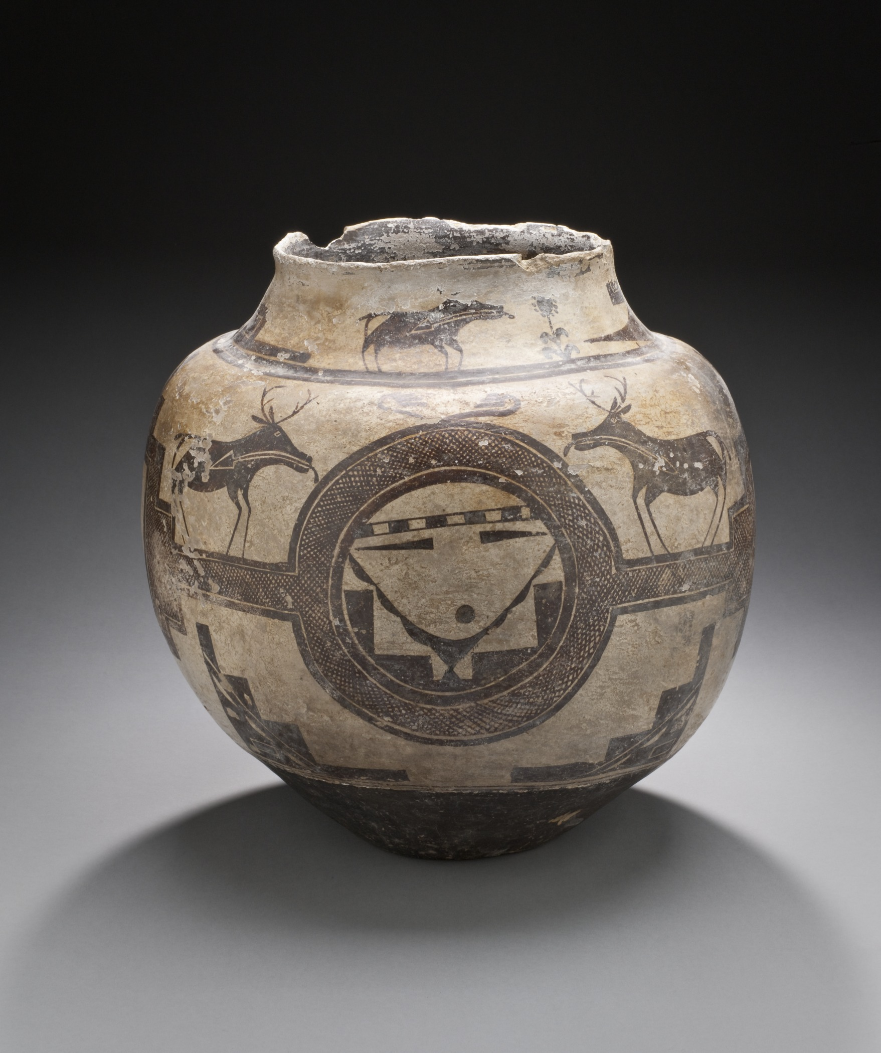 United States, New Mexico, Zuni Pueblo, Zuni, circa 1840-1850 Furnishings; Serviceware Earthenware and pigments Gift of Camilla Chandler Frost (M.2008.113.1) Decorative Arts and Design